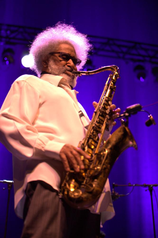 Sonny Rollins in a 2011 performance